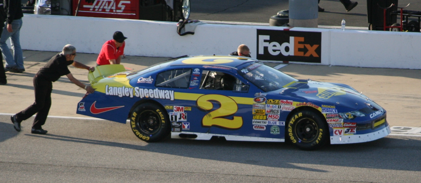 Ryan Gifford's No. 2 Toyota is pushed on pit road at Richmond International Raceway before the NASCAR K&N Pro Series East Blue Ox 100, April 25 2013.